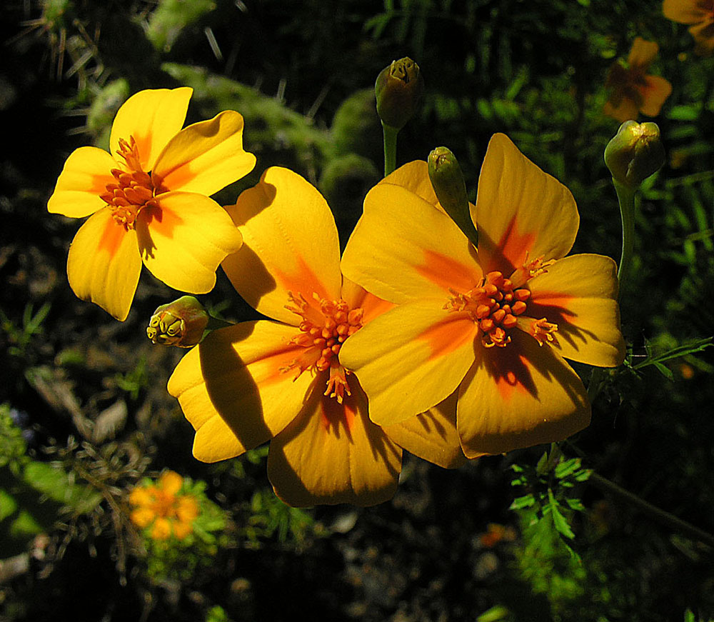 Native here in southern Mexico, also known as Cinco Llagas. The species has been tweeked into many cultivars under the name of French Marigold. In context at